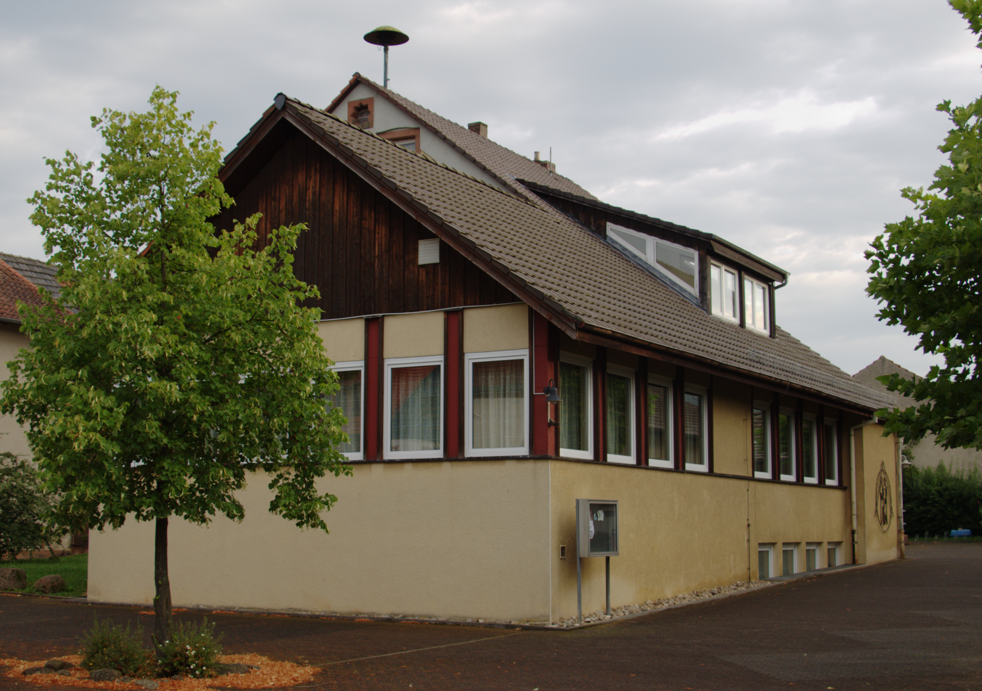 Community centre (DGH) in Schlitz-Rimbach / Hesse / Germany